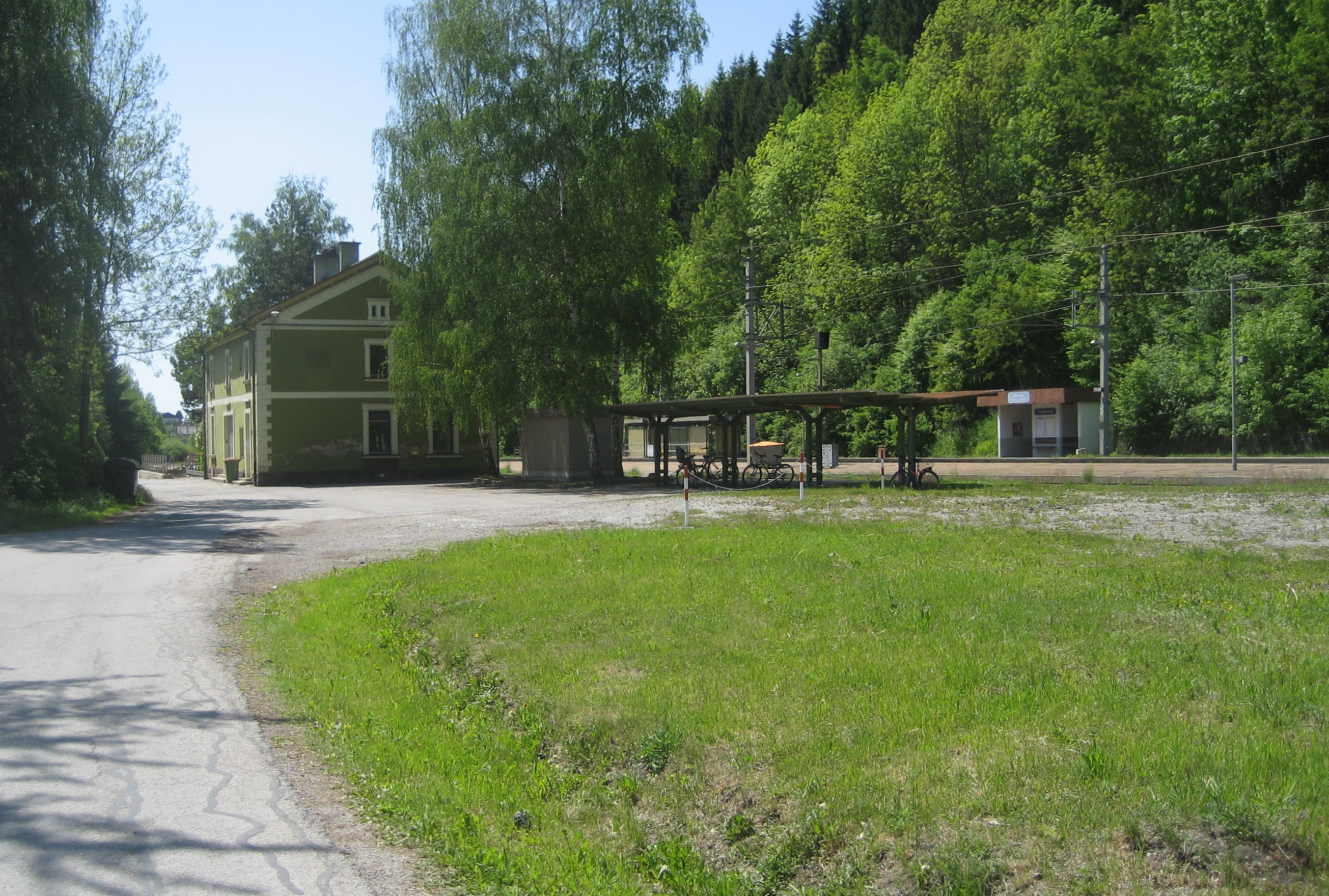 Train station Langenwang in Styria